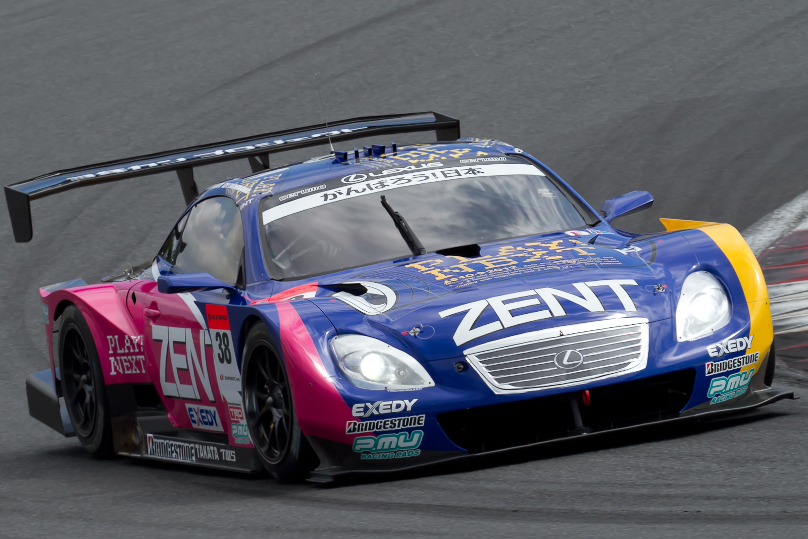 Super GT 2011 Rd.6 Fuji GT 250km: Yuji Tachikawa (Lexus Team ZENT Cerumo) driving the Lexus SC GT500.